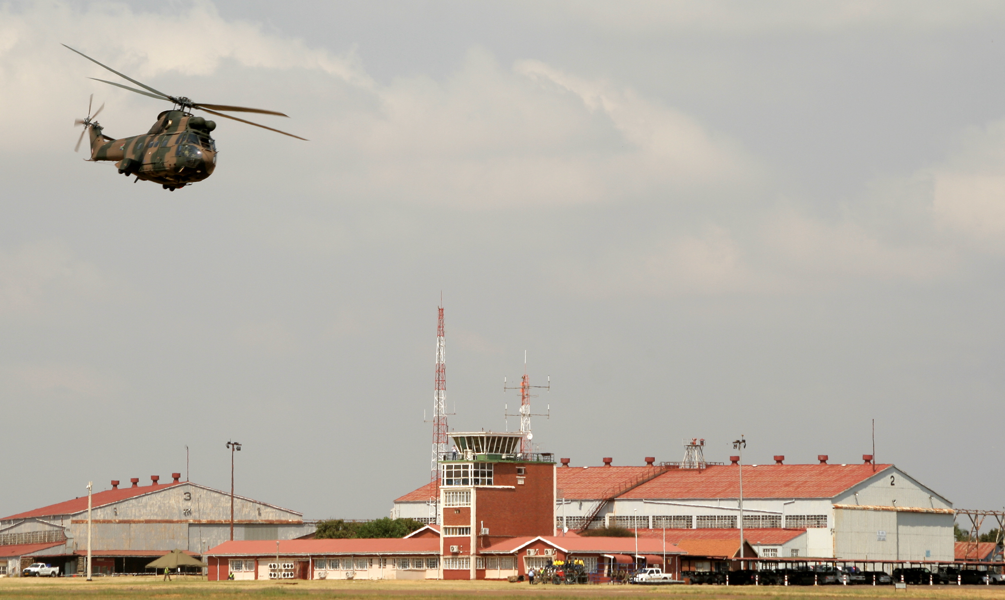 South African Air Force SA 330 Puma at AFB Waterkloof